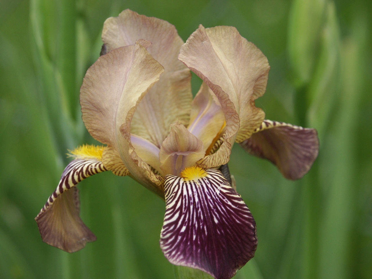 Iris squalens, Tauberland, Germany